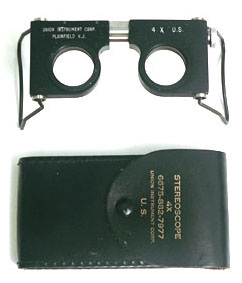 Stereoscope and case. During WW2 this tool was used by Allied photo interpreters to analyze images shot from aerial photo reconnaissance platforms.